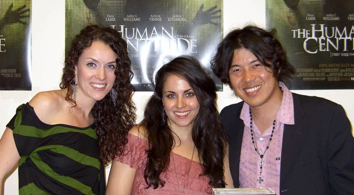 The Human Centipede stars Ashlynn Yennie, Ashley C. Williams and Akihiro Kitamura at the Big Apple Convention in Manhattan, October 1, 2010. This photo was created by Luigi Novi. It is not in the public domain, and use of this file outside of the licensing terms is a copyright violation.